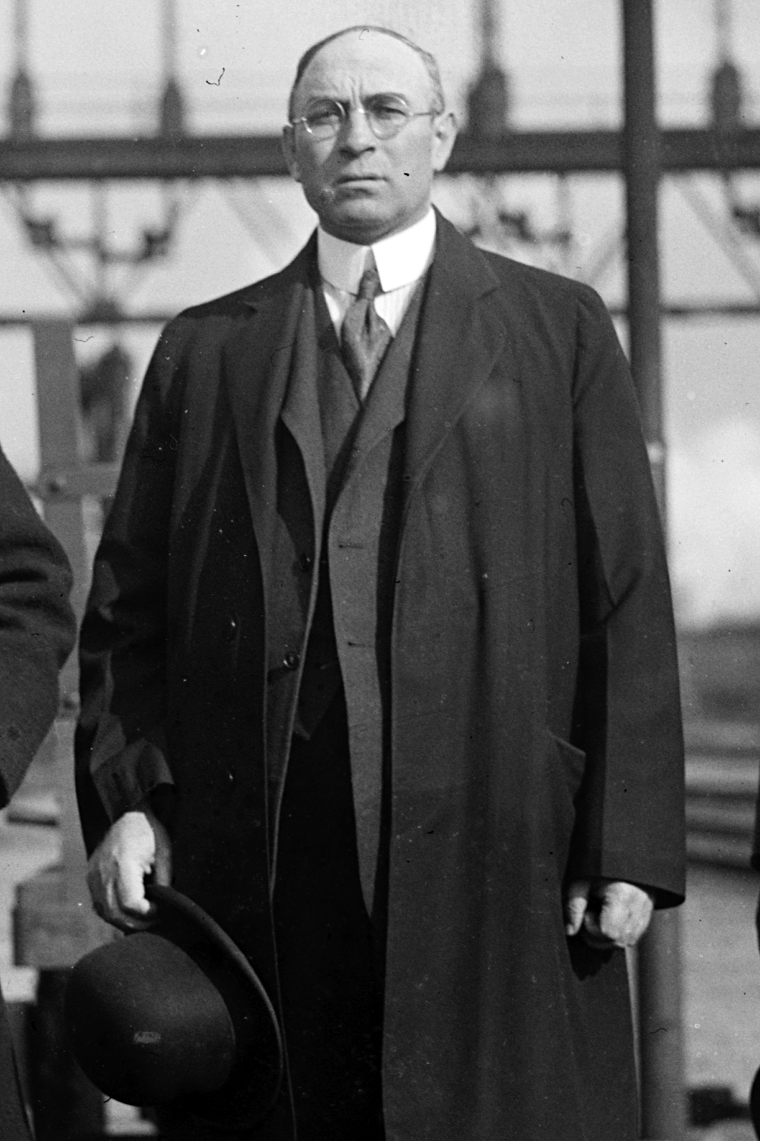 Patrick McLane, US Representative from Pennsylvania